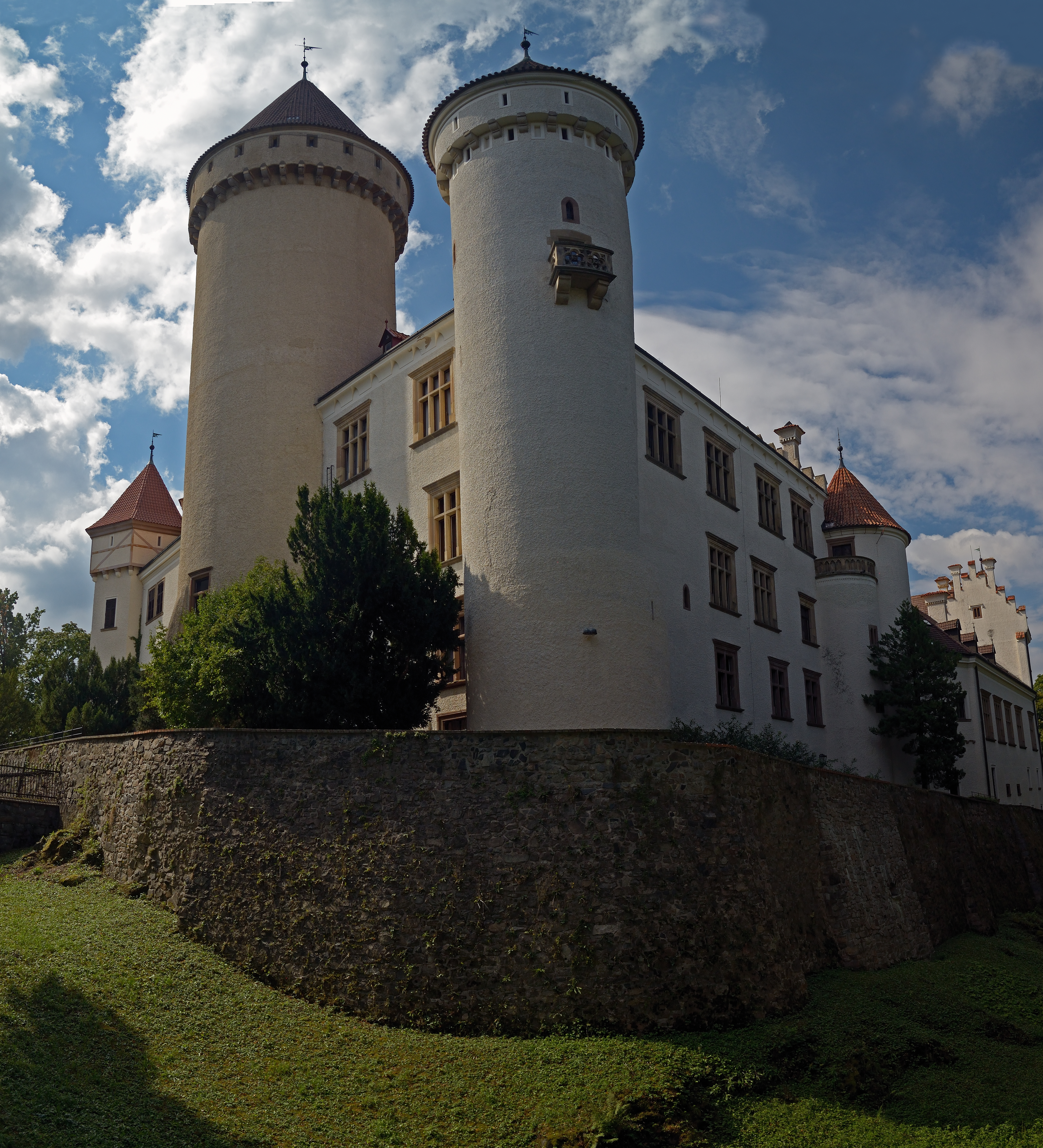 Konopiště castle near Benešov, Czech Republic. 2015